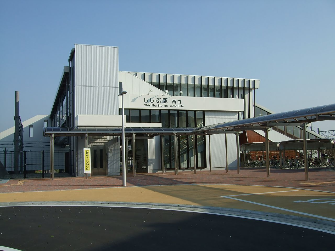 Shishibu Station, Kagoshima Line, Kyushu Railway Company.